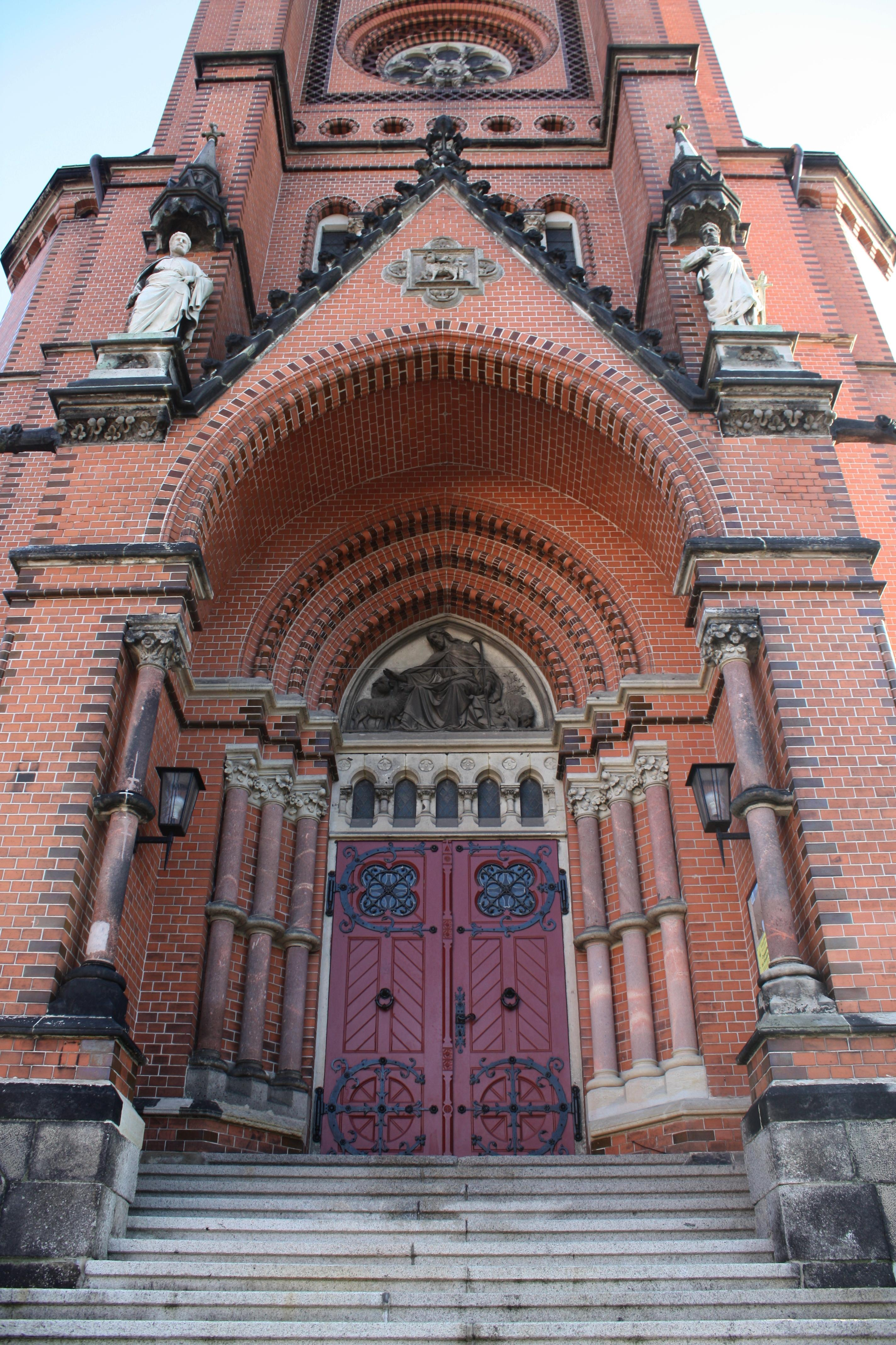 Aue, Saxony: Portal of Nikolaikirche church.